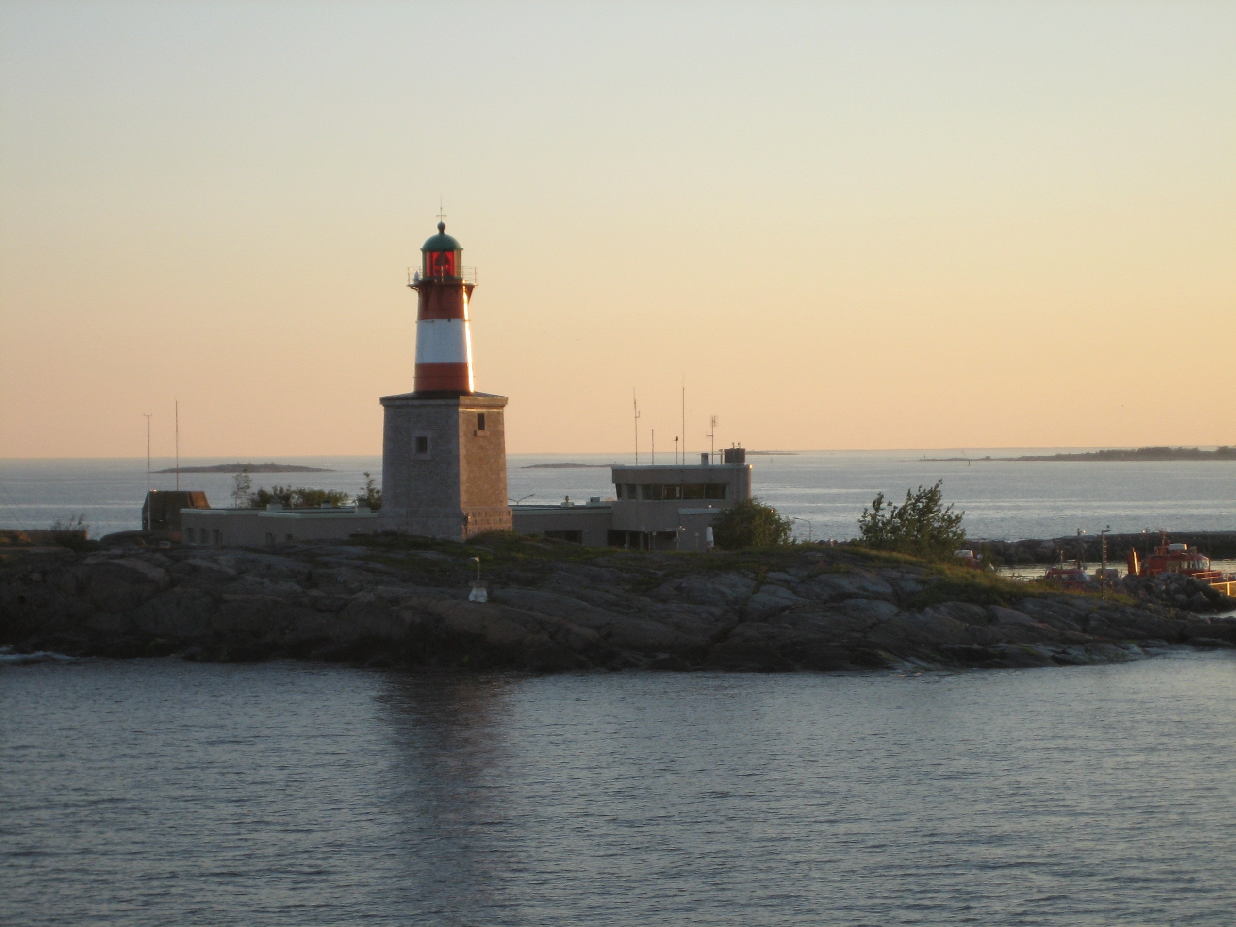 Harbour pilot station and lighthouse on Harmaja on the Finnish Gulf in front of Helsinki, Finland.